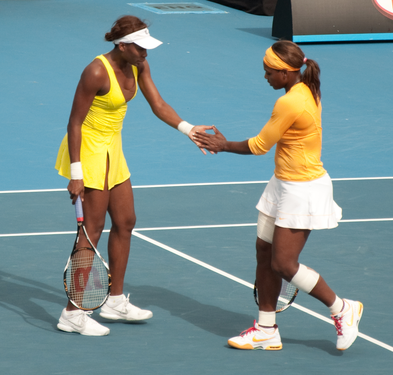 Melbourne Australian Open 2010 Venus and Serena Hands